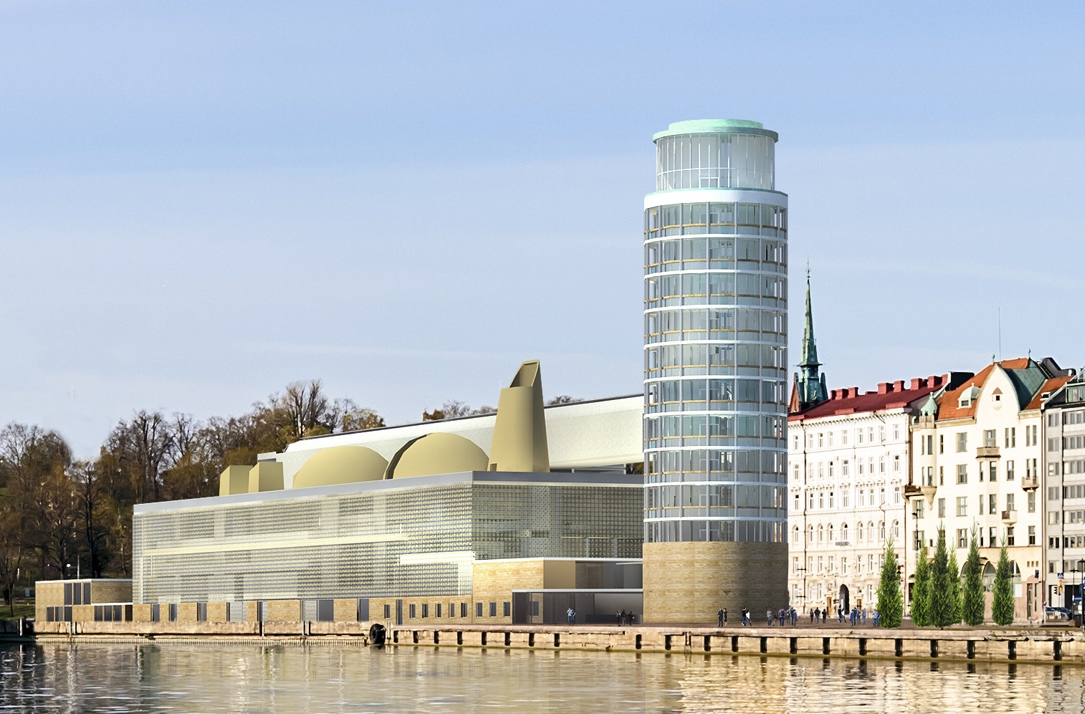 Featured images for Douglas Jarvie Clelland Wikipedia article